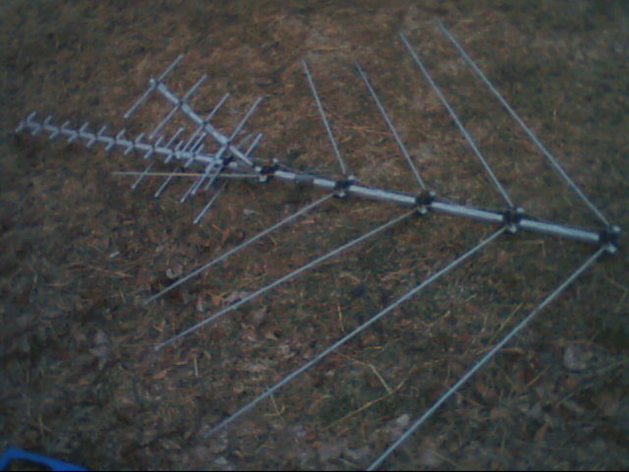 TV Aerial